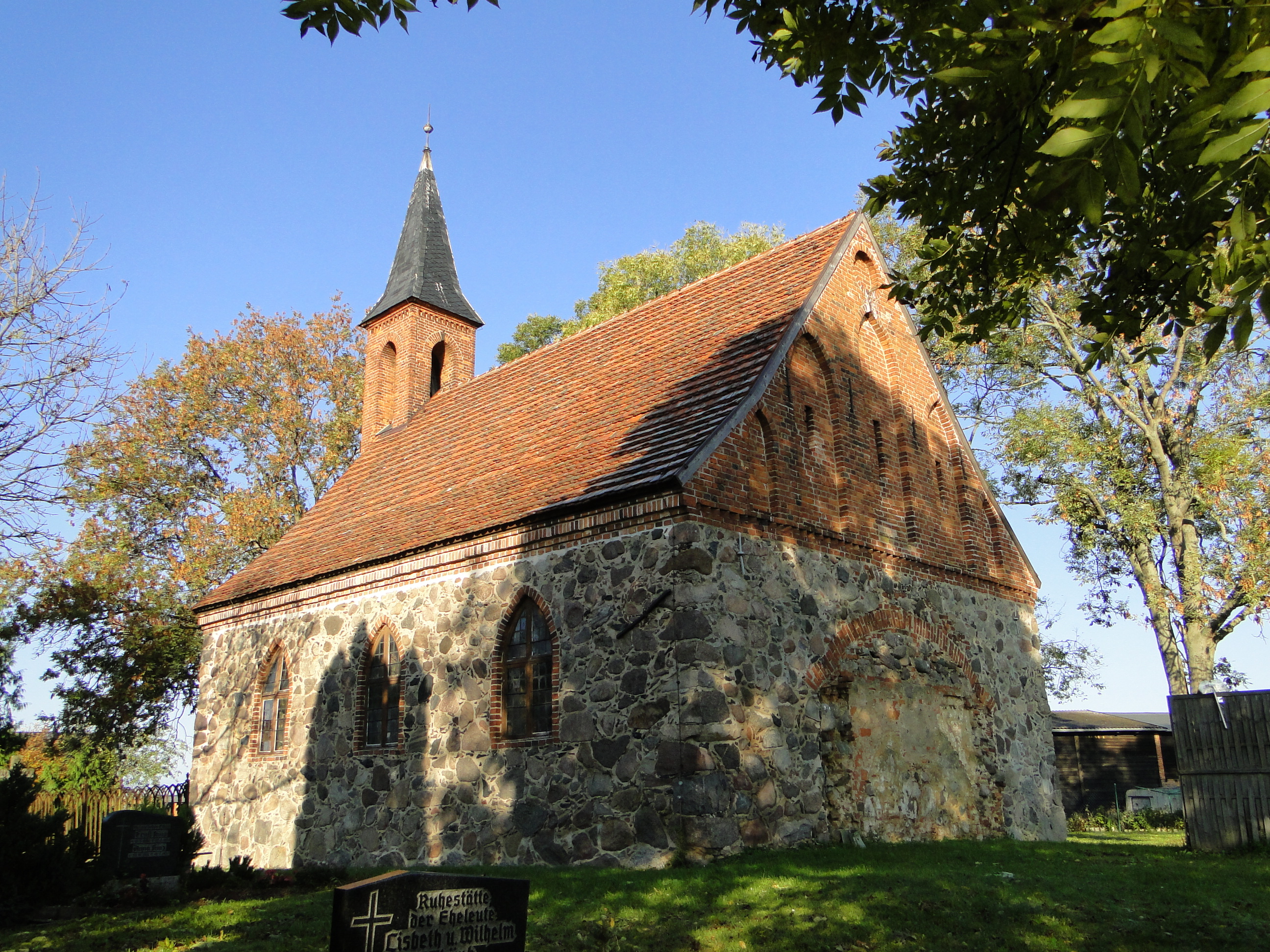 Church in Krukow, district Müritz, Mecklenburg-Vorpommern, Germany